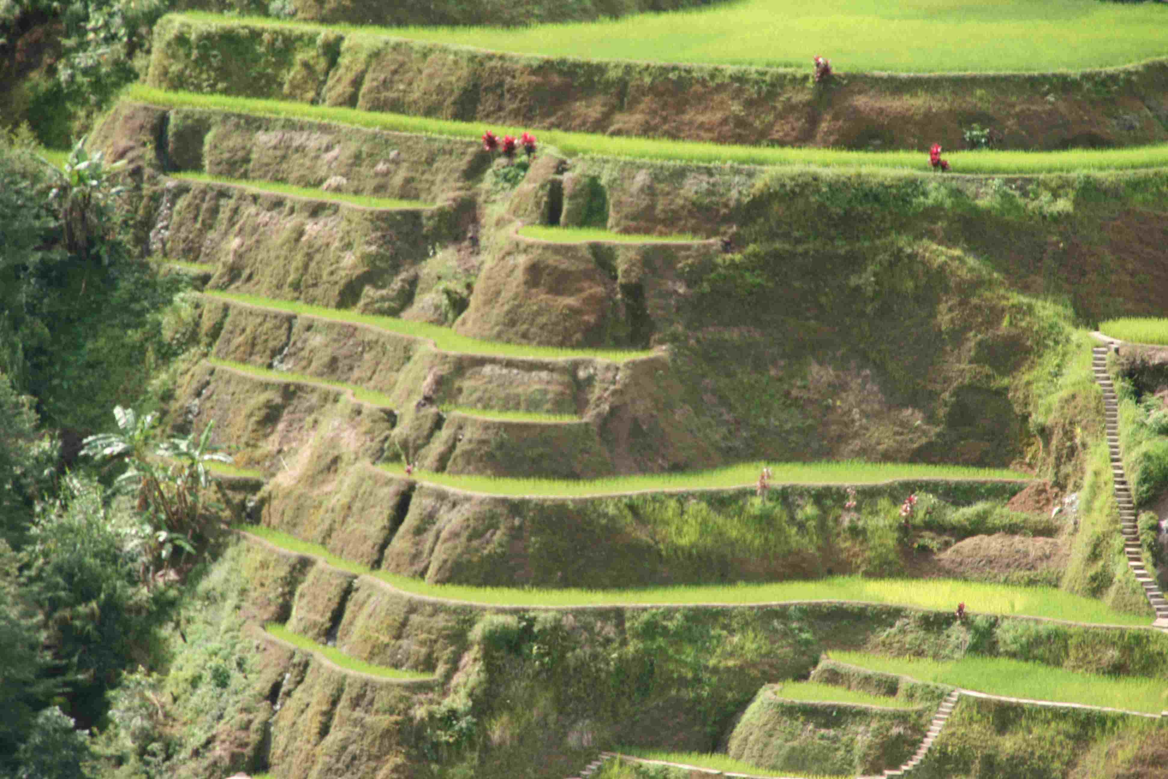 Banaue rice terrace